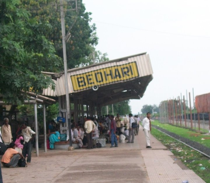 It is a pics of Railway station Beohari